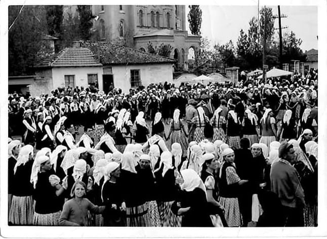 Celebration of the Body of Christ in Sekirovo in 1945.